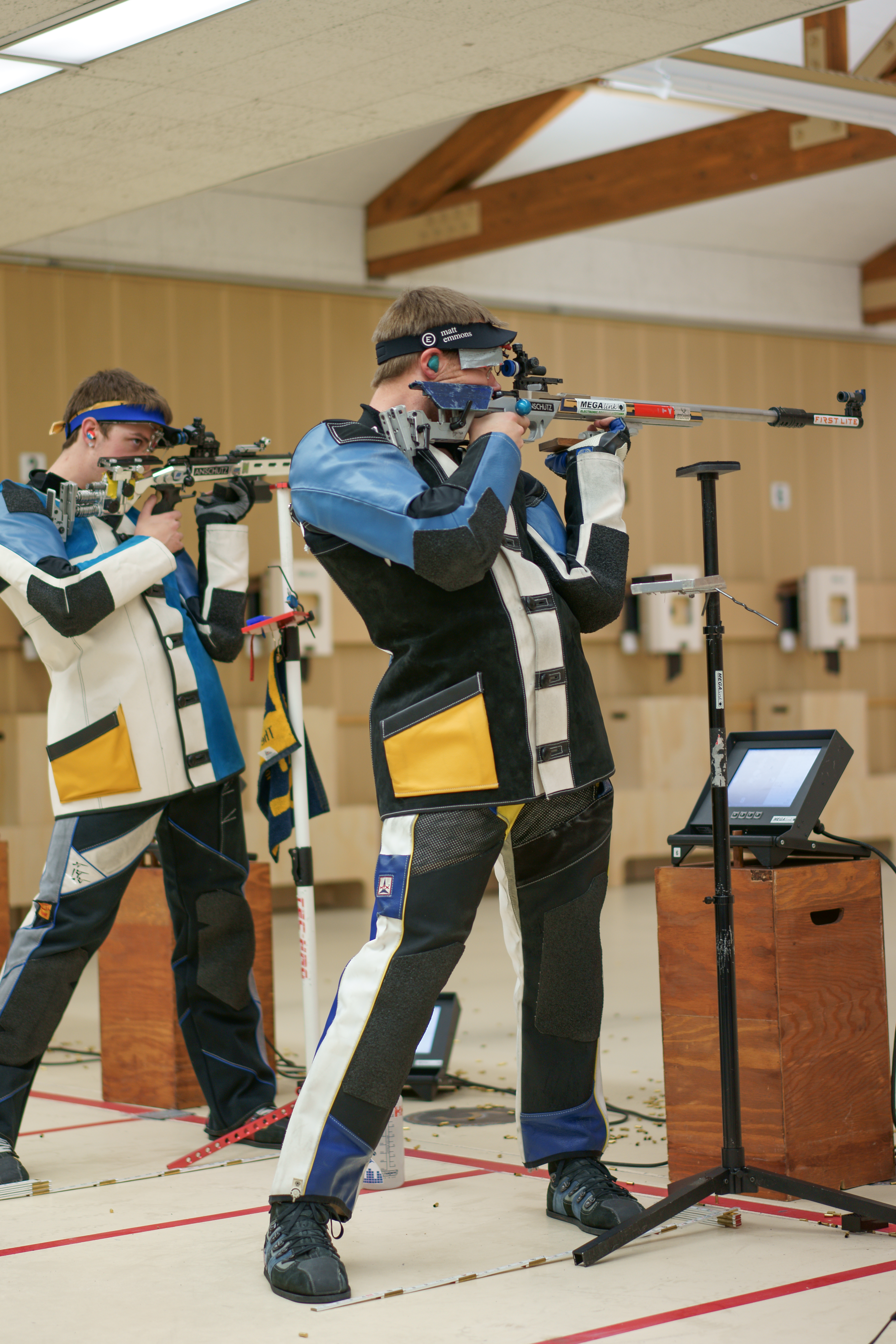 U.S. Olympic shooter Matthew Emmons in the 2014 winter selection match, Colorado Springs Olympic Training Center, January 2014